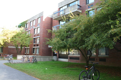 Dakin Dorm at Hampshire College, 2006. Author: Justin Lutz